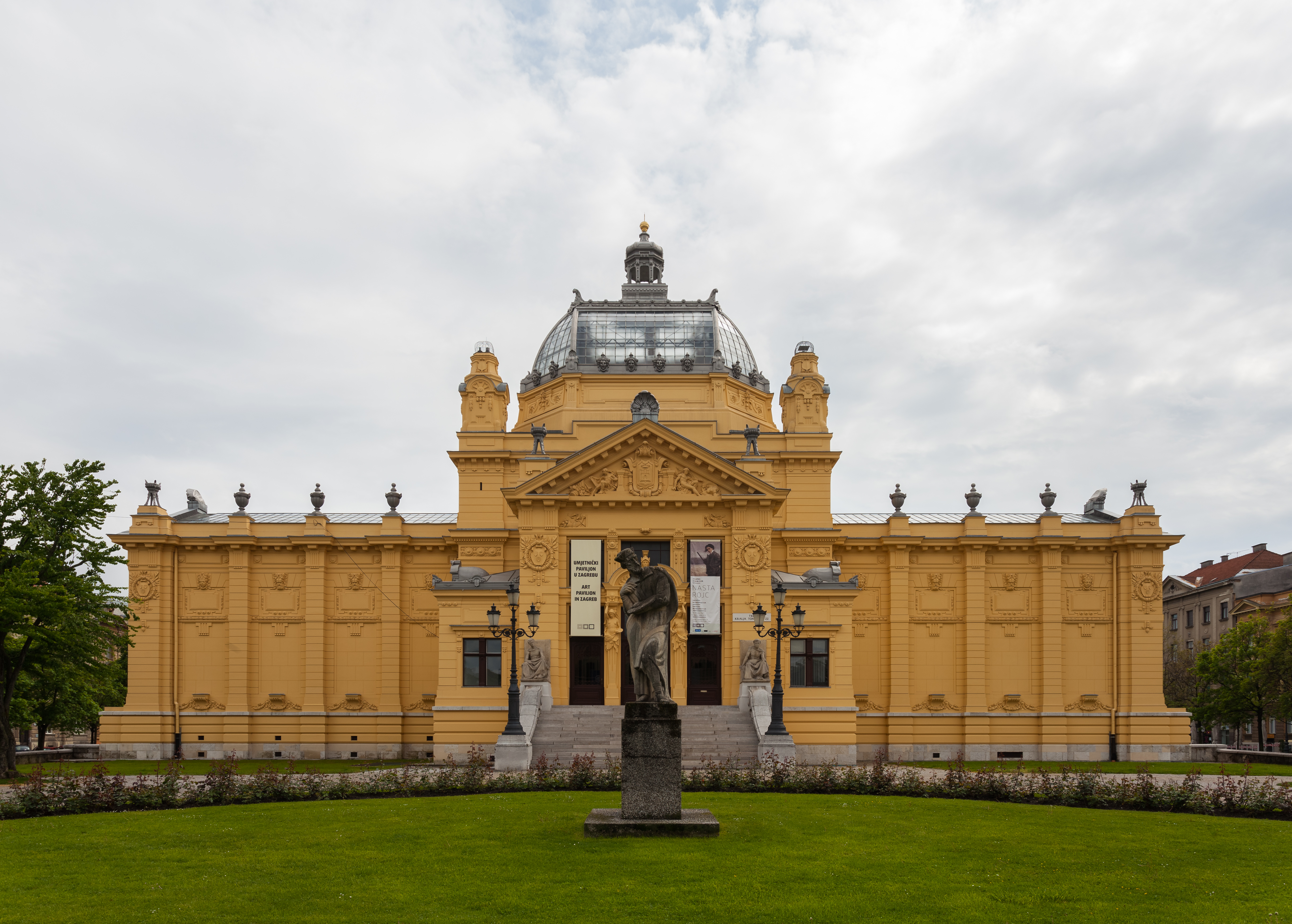 Art Pavillon, Zagreb, Croatia